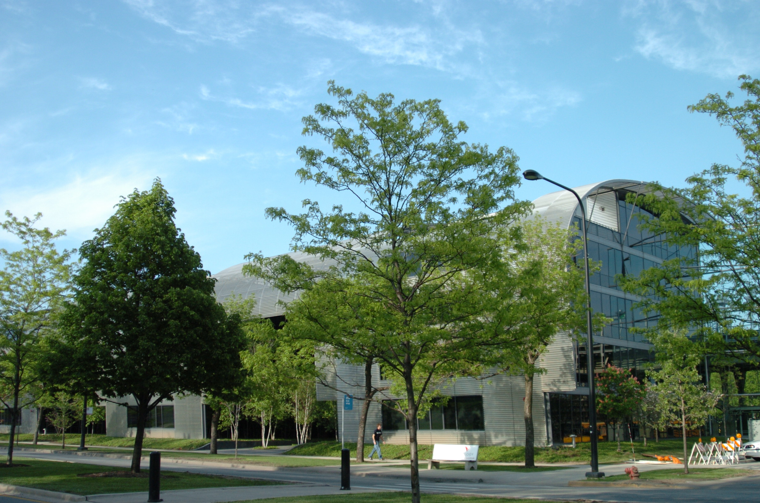 Helmut Jahn's State Street Village at Illinois Institute of Technology. by Richard Duncan